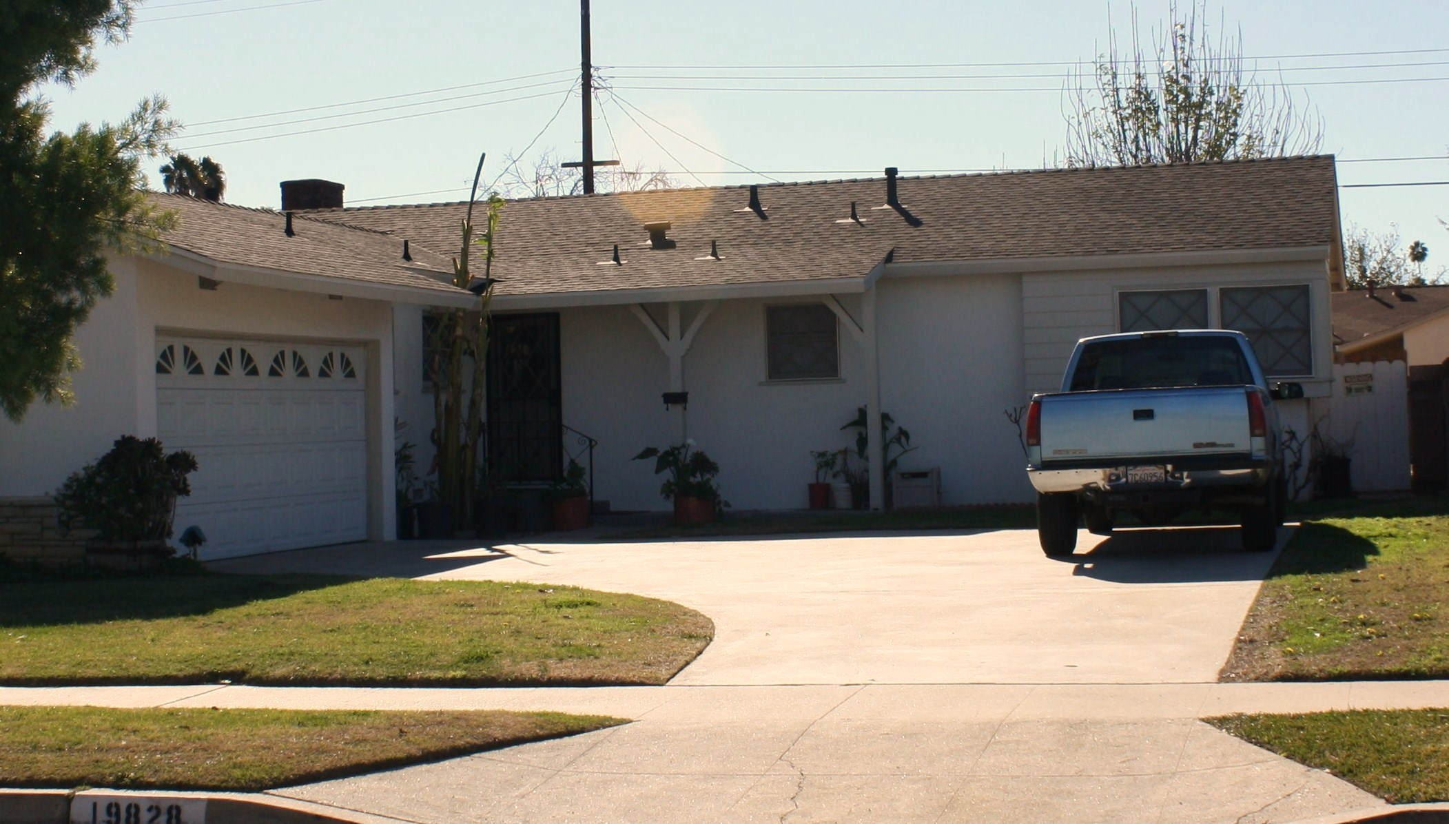 From the 1991 Sci-Fi thriller Terminator 2, this private residence in the city of Winnetka was the location of John Conners home where he lived with his foster parents.